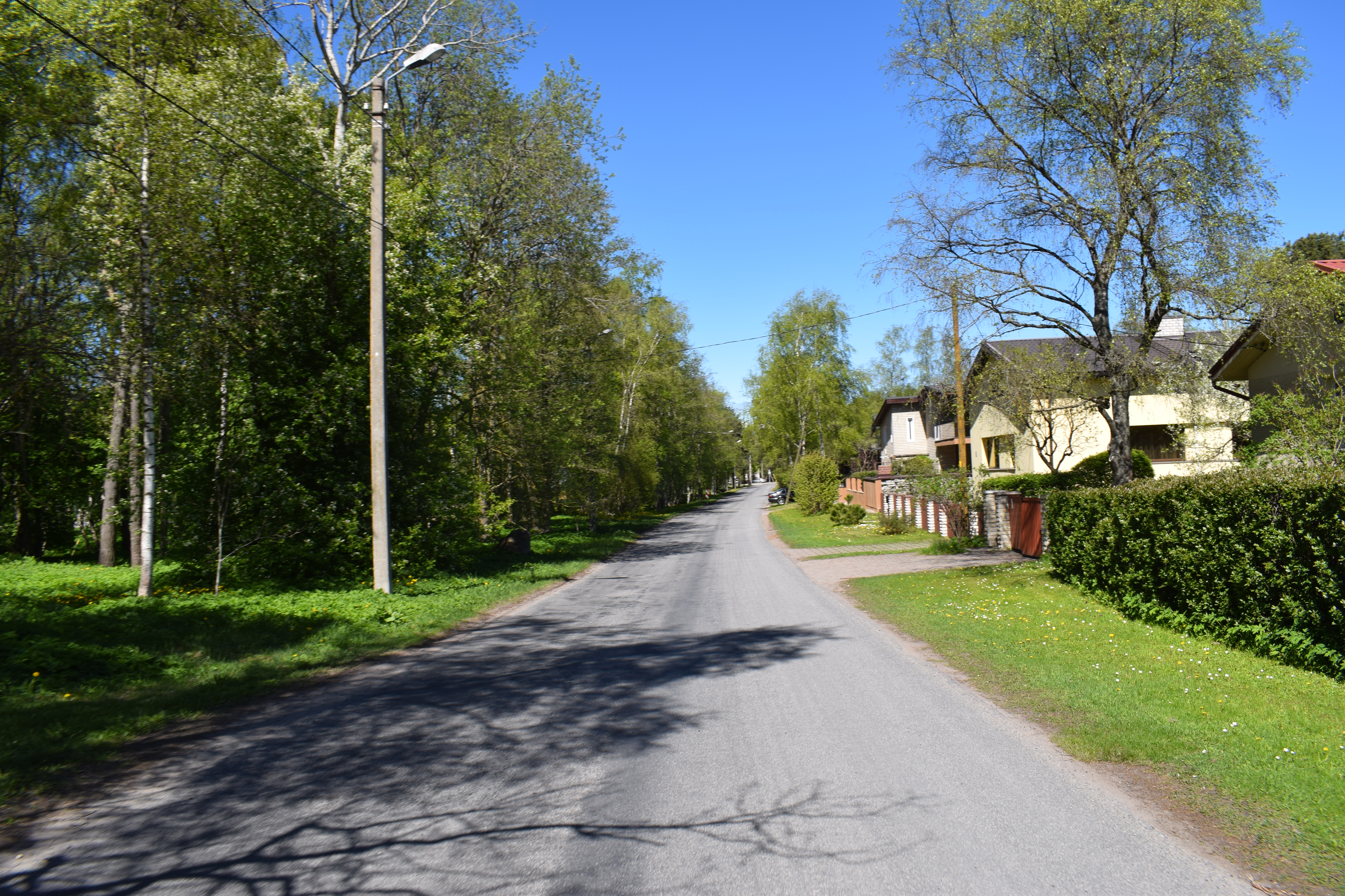 Rahvakooli road